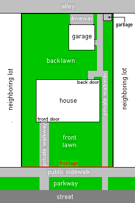 Diagram of an example house Lot as seen from above, showing front and back yards, positions of structures on the lot, and immediate surroundings. The lot boundaries are outlined in black except for the frontage, which is shown in red. In this example, the immediate surroundings include a sidewalk, parkway, and section of street out in front and a section of alley in back. Lot structures include a house, private walkways, and in back - a detached garage with driveway access to the alley and an a small area for garbage. H Padleckas created this image file in early September 2006 especially for use in the article "Lot (real estate)" in Wikipedia. H Padleckas 11:22, 16 September 2006 (UTC)